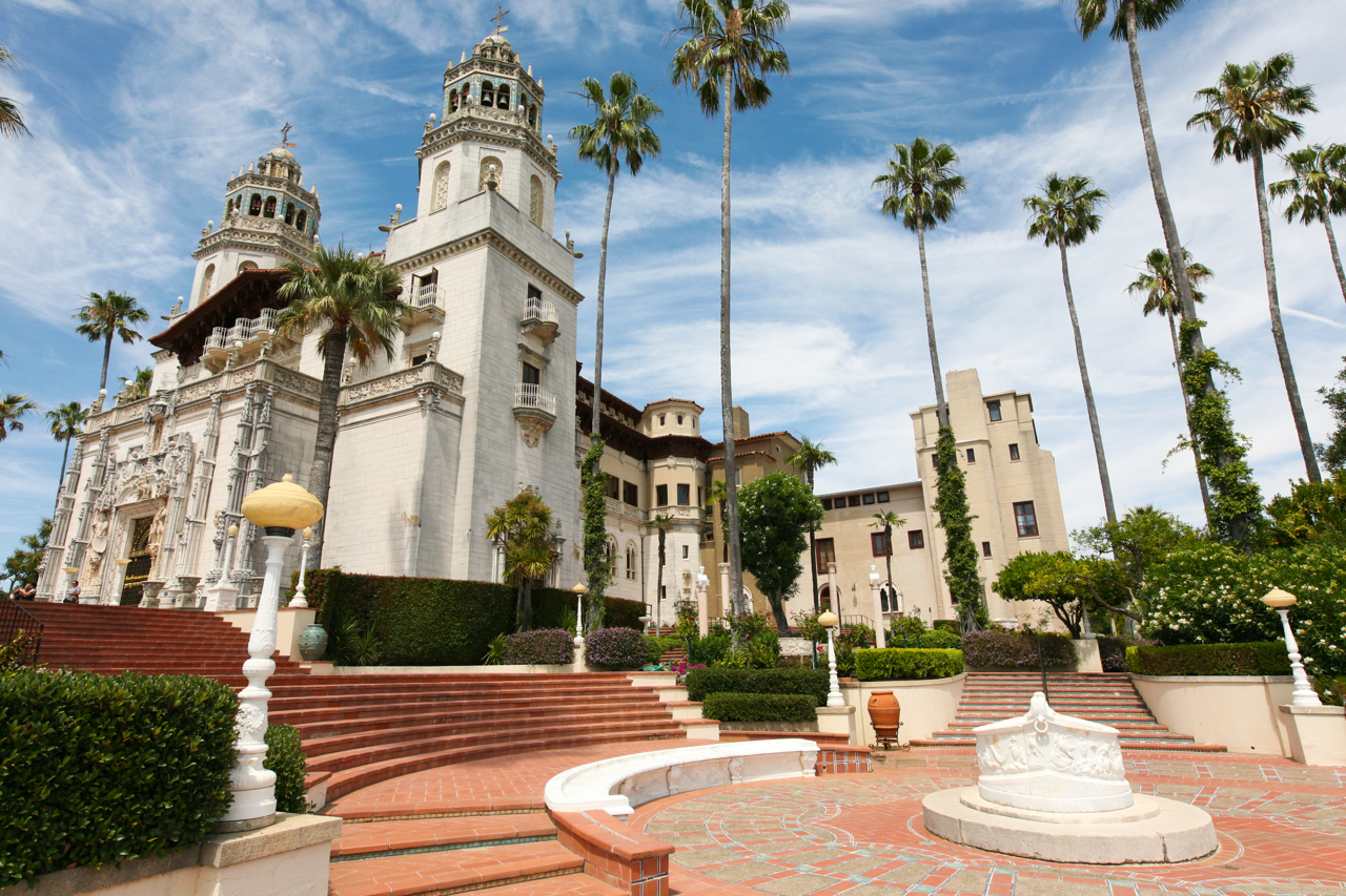 Entry terrace with wellhead, gardens, and Mexican fan palms — and Casa Grande. At the Hearst San Simeon Ranch.